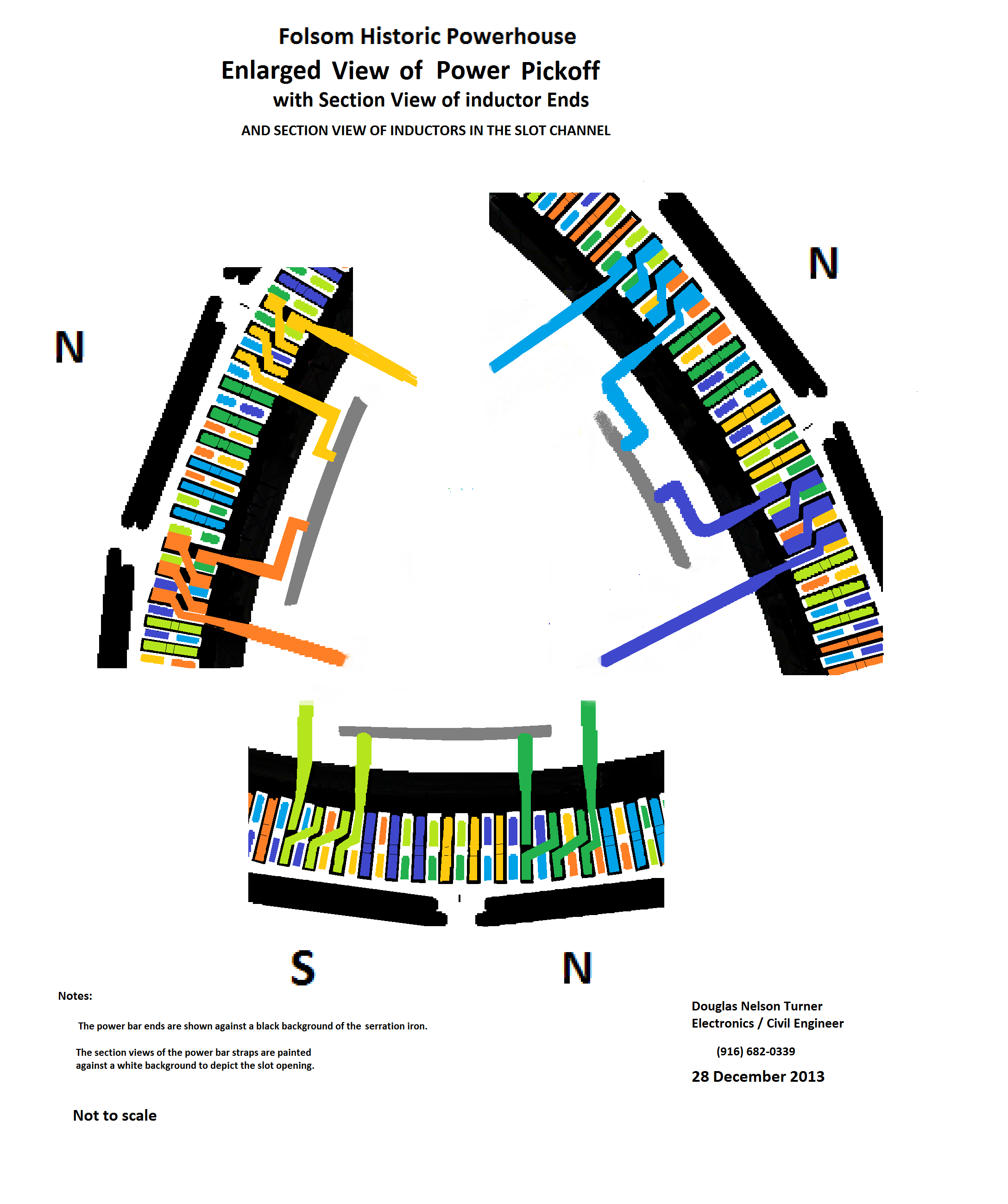 Folsom Powerhouse Rotating Armature, Enlargement of Power Pickoff areas